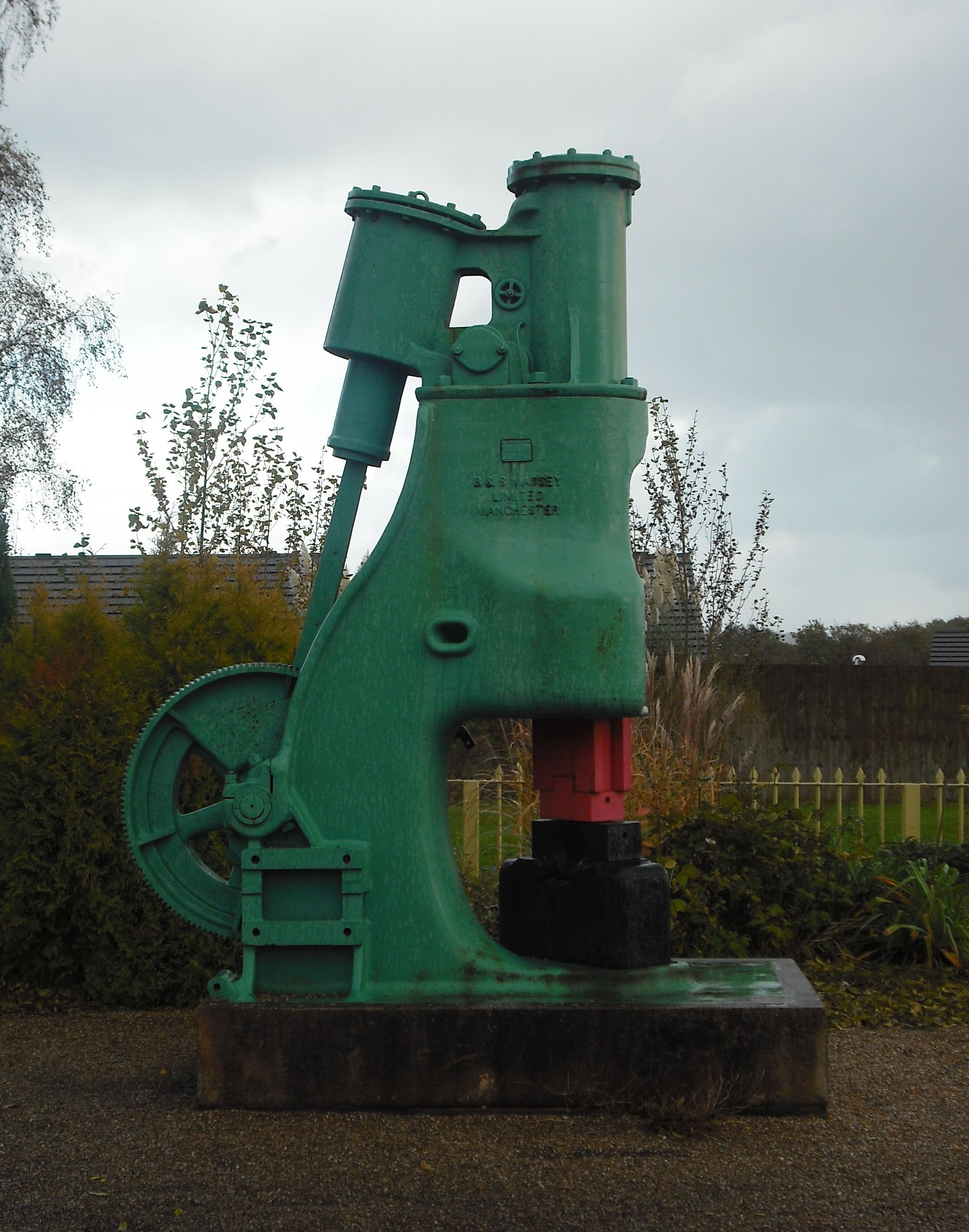 Massey steam hammer at Griffithstown Railway Museum